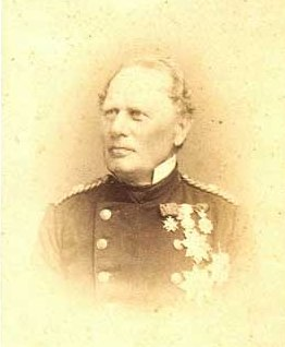 Carl Edvard van Dockum (1804-1893), Danish Admiral, diplomat, politician MP, Minister of the Royal Navy